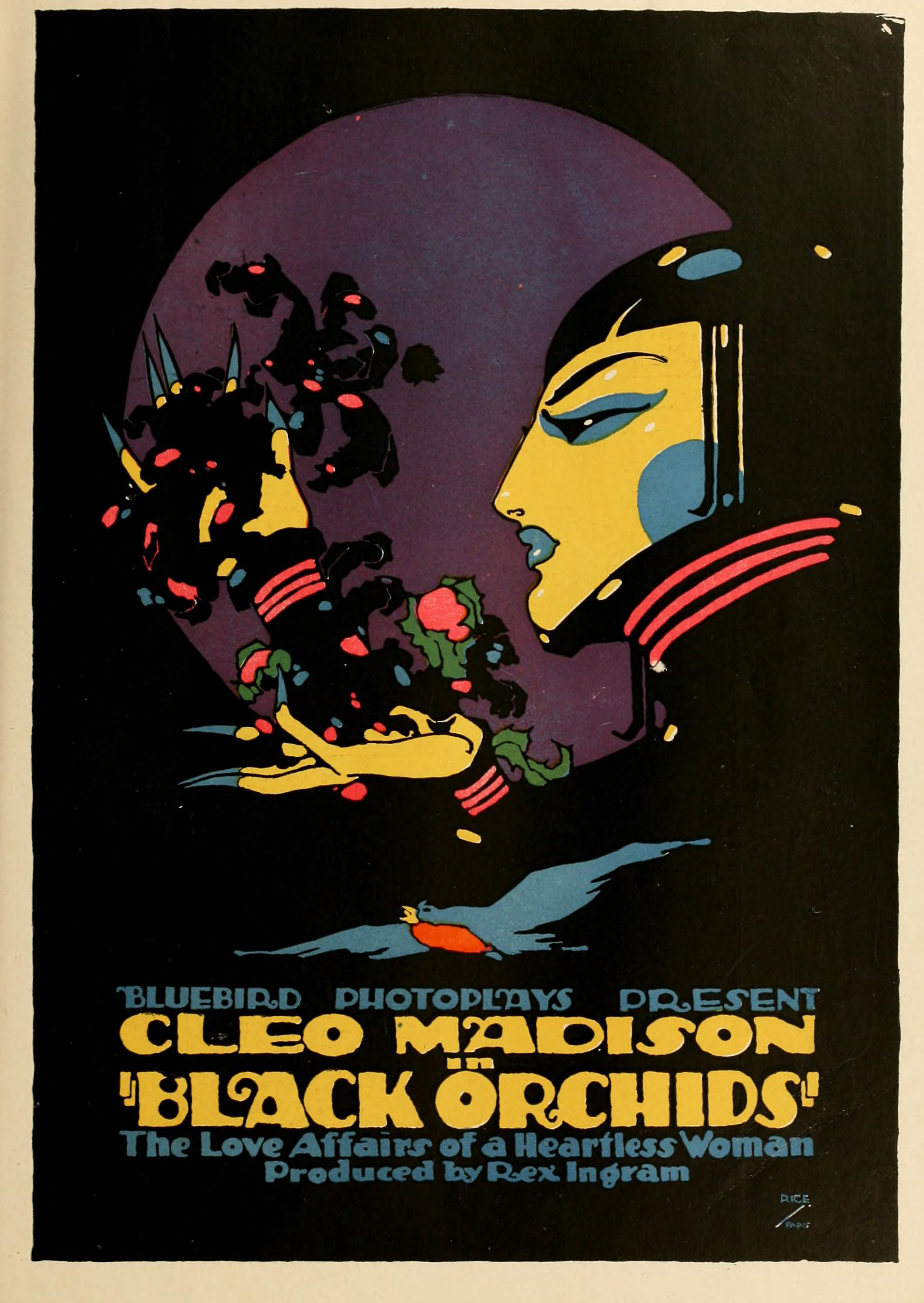 Advertisement in The Moving Picture World